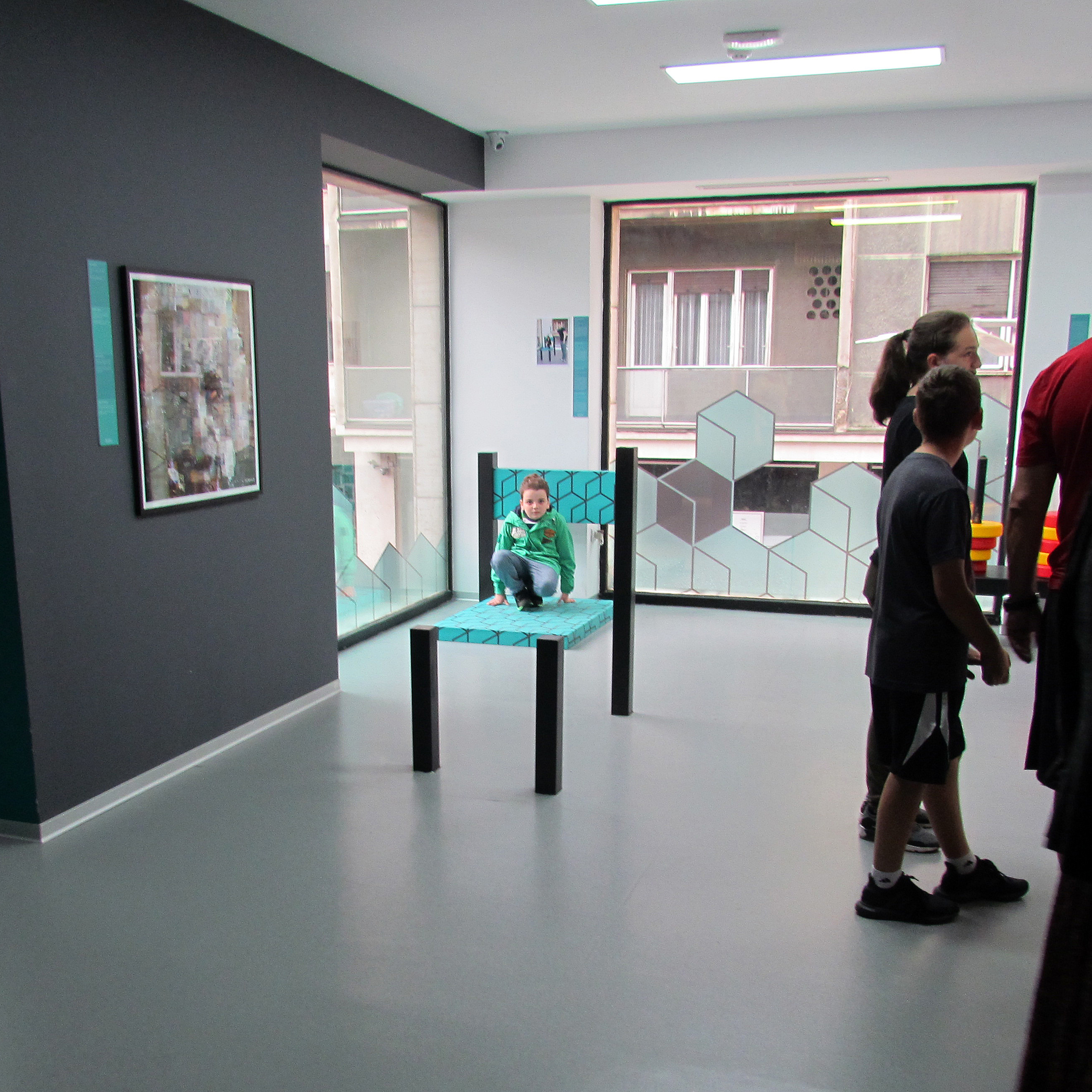 Museum of Illusions, Belgrade, Serbia